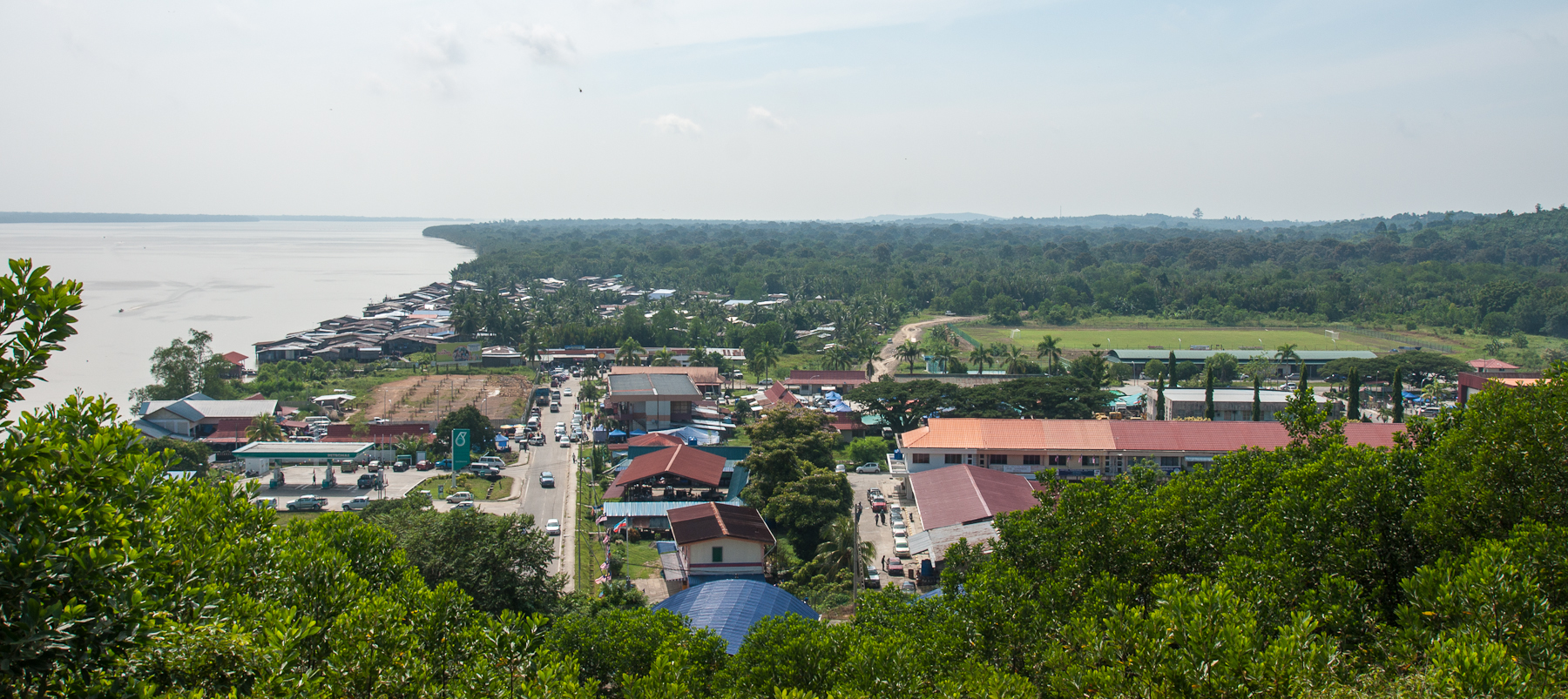 View of the town from the Police Headquarters hill. The water is part of the Sungai Labuk Estuary